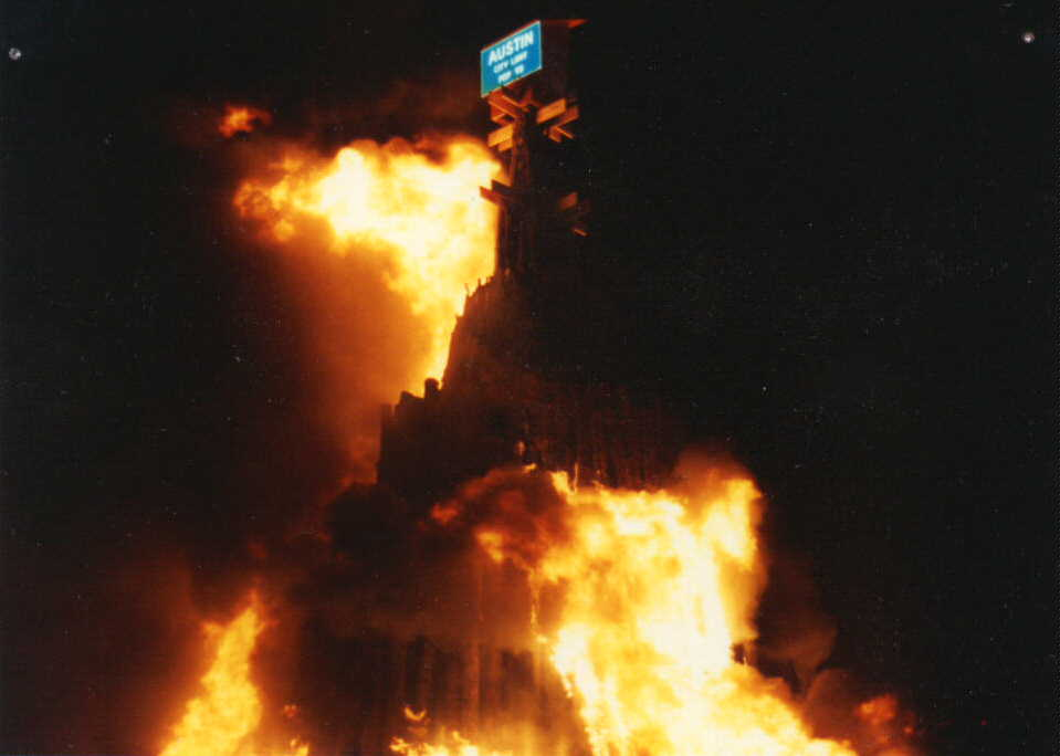 Aggie Bonfire from 1989 or 1990 (author is unsure of which one)